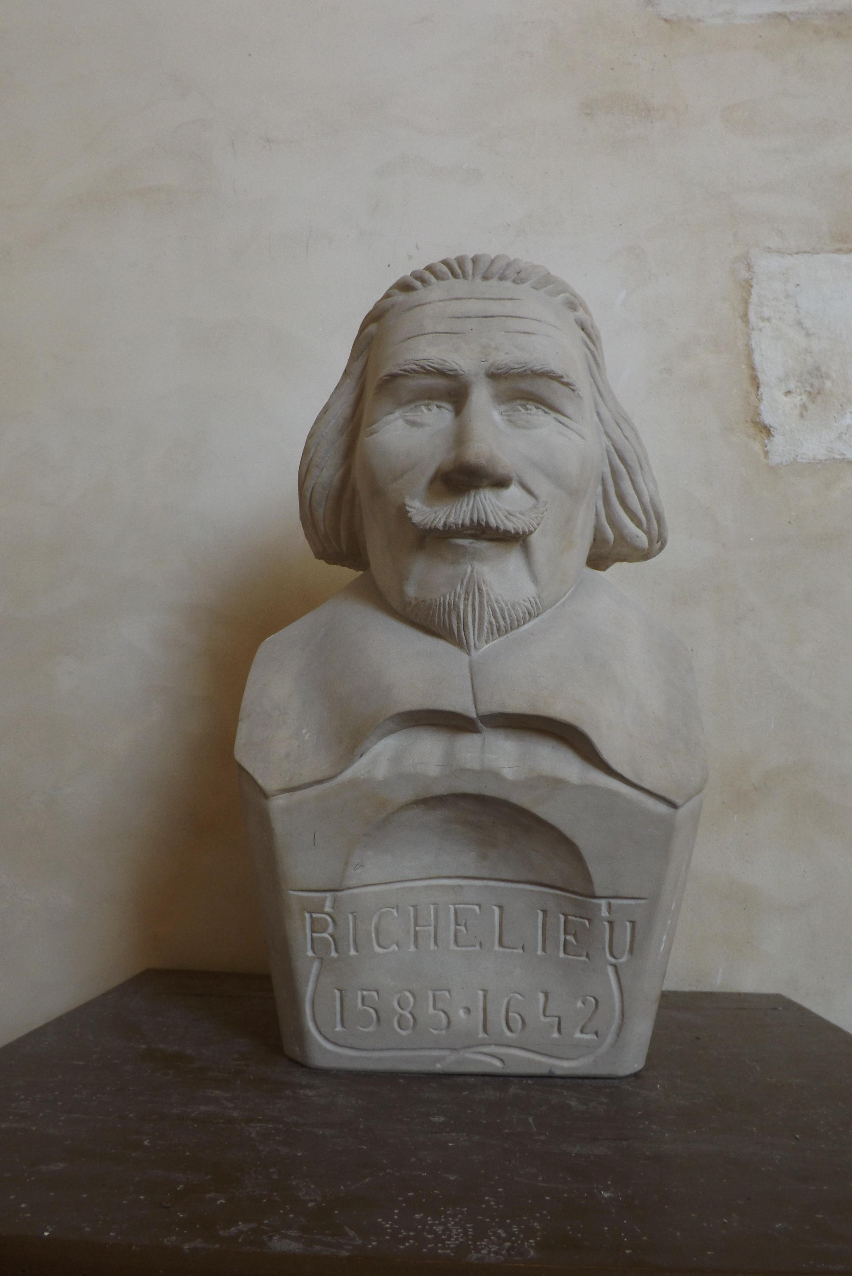 Buste de Richelieu (1585-1642) dans l'église de Brouage.